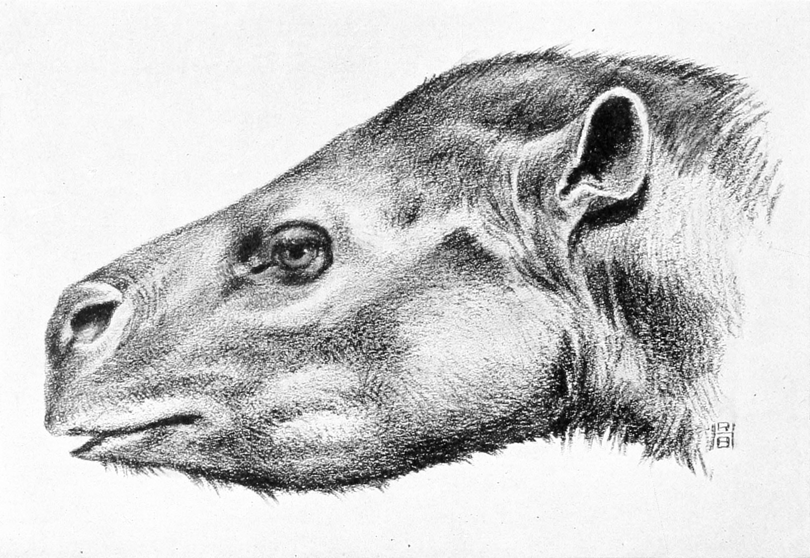 Life restoration of Protapirus simplex (formerly validus) from W.B. Scott's "A History of Land Mammals in the Western Hemisphere." New York: The Macmillan Company.